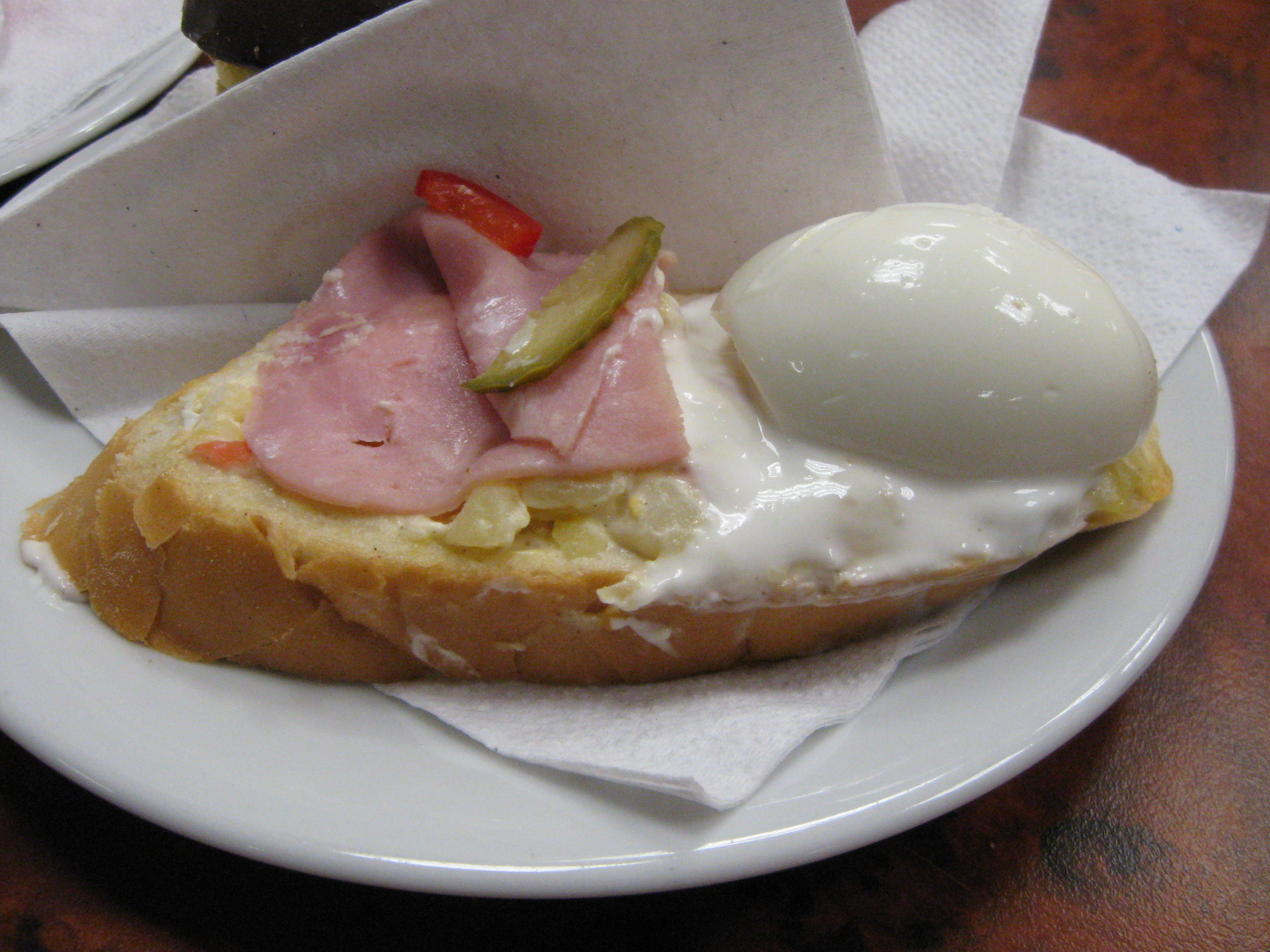 Czech sandwich with egg and ham.